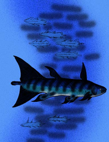 Reconstruction of the aberrant coelacanth, Rebellatrix, of Triassic British Columbia.